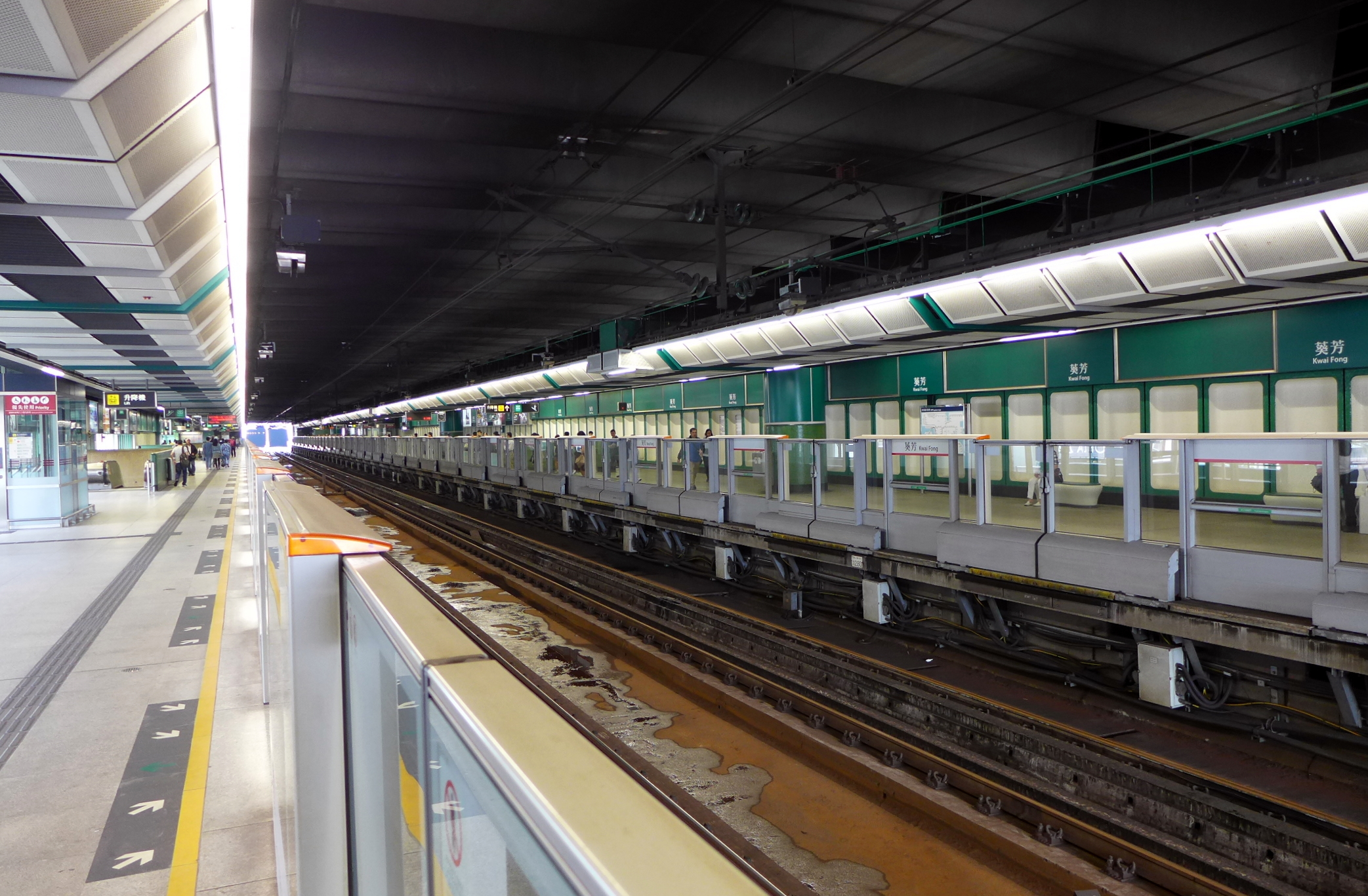 MTR Kwai Fong Station platform中文（香港）: 港鐵葵芳站月台